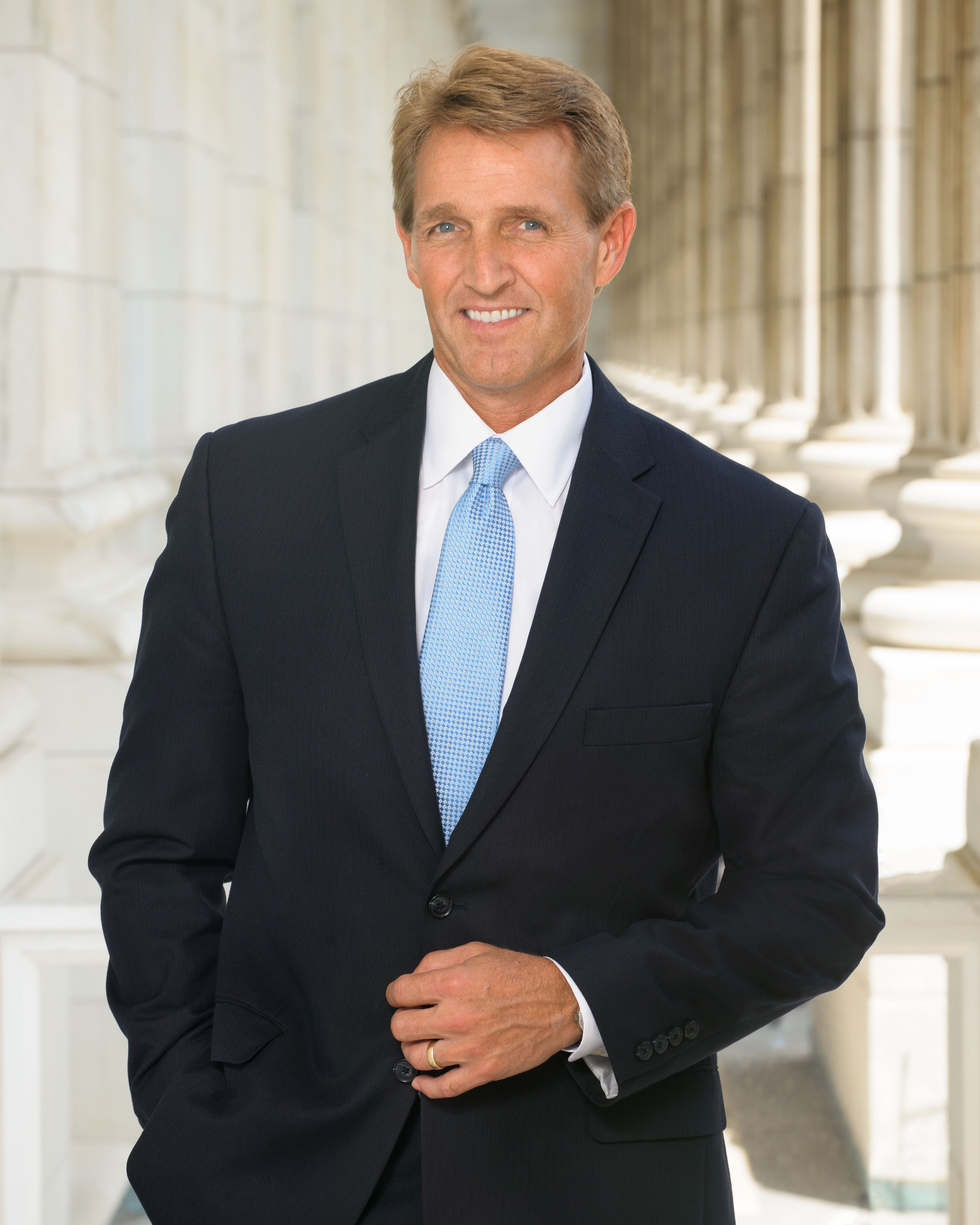 Approved CFF